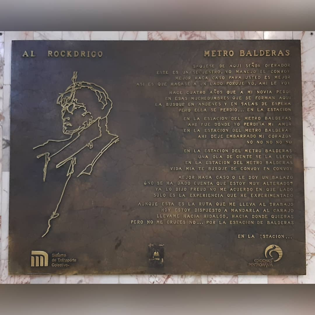 Placa de Rockdrigo González en el Metro Balderas